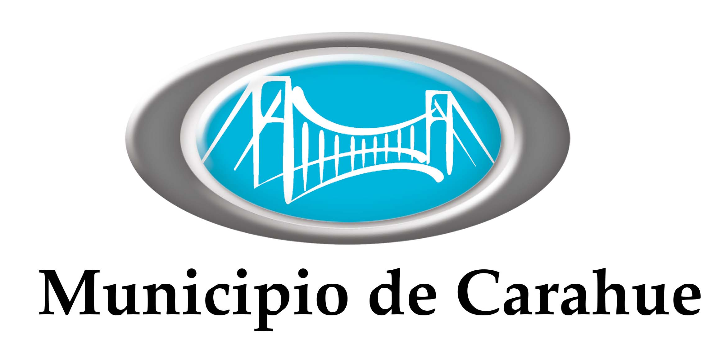 Municipio de Carahue